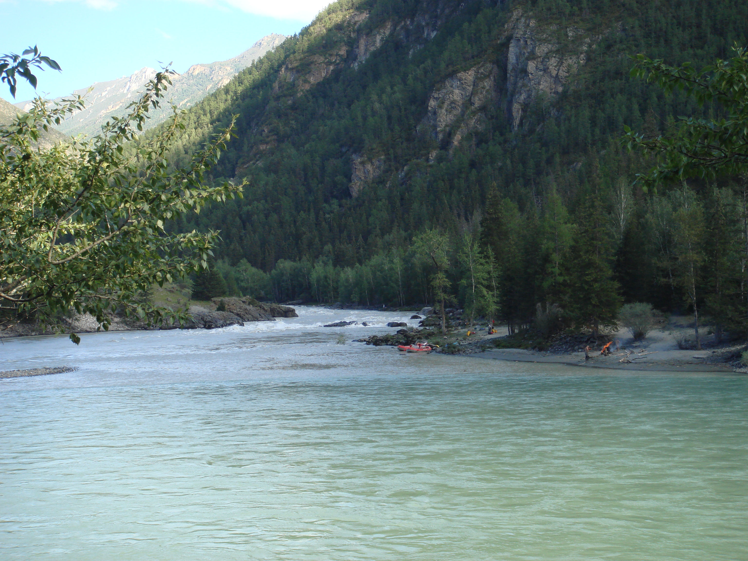 Confluence of Katun and Argut (Altay Republic, Russia).